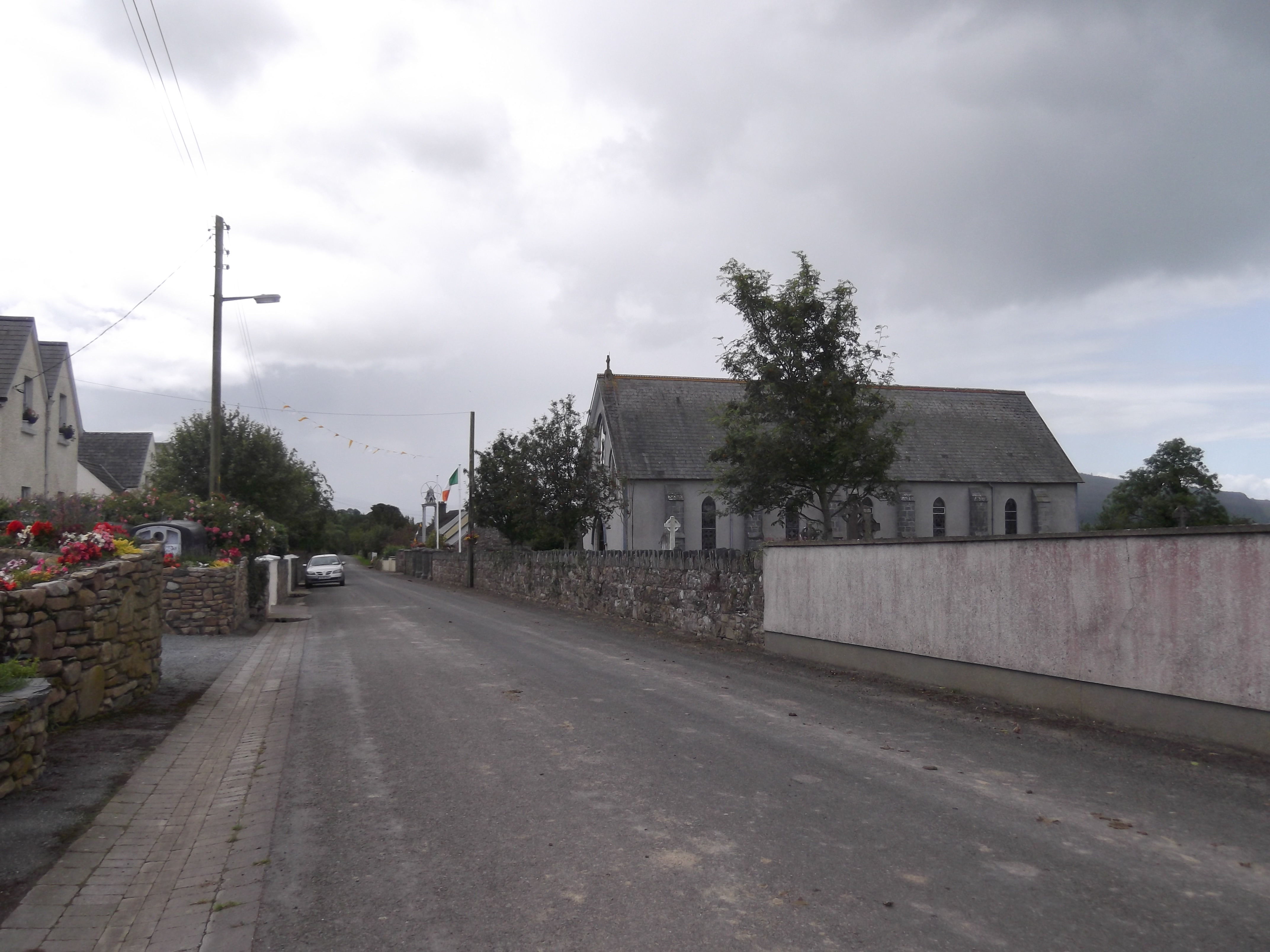 Tullahough Village, St Nicholas Church Kilmacoliver